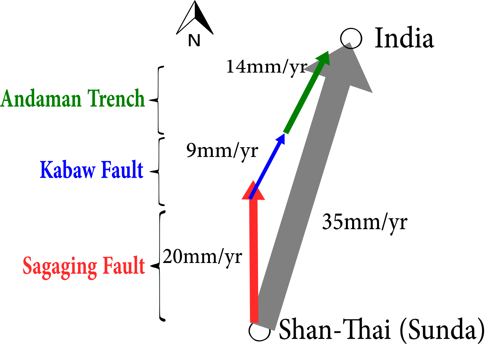 Shows the India plate is accommodated by three fault systems.